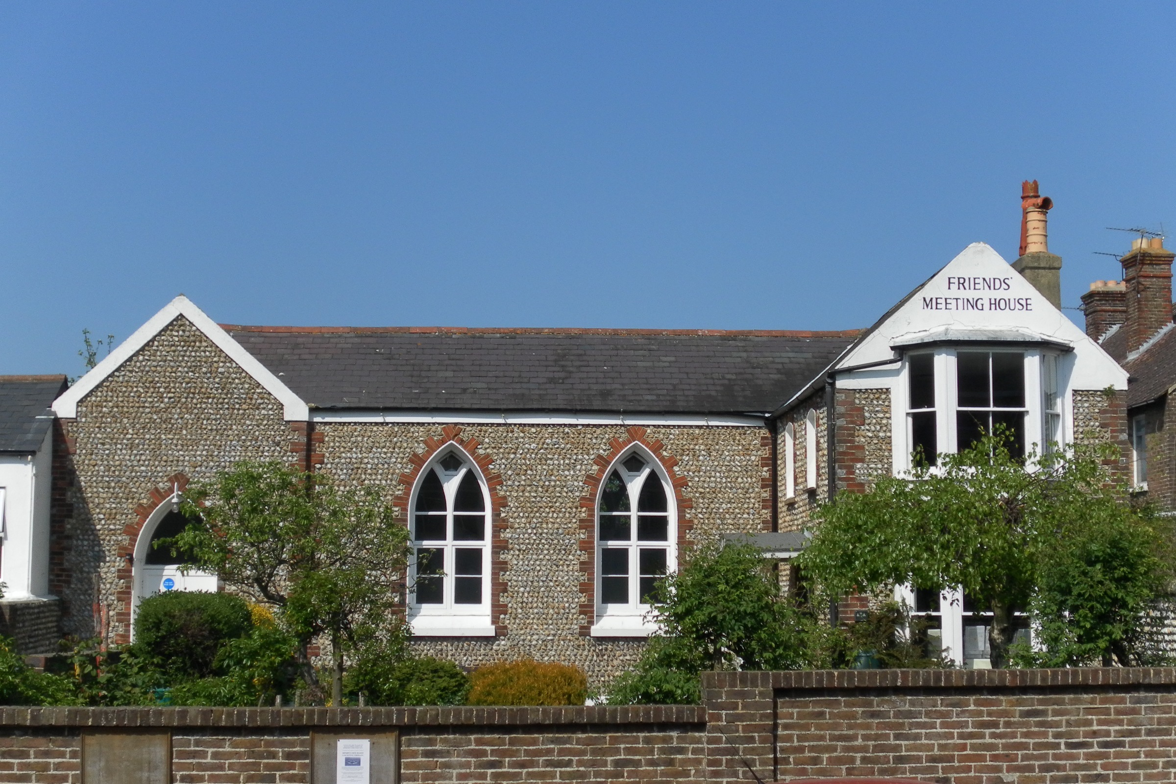 Friends Meeting House, Church Street, Littlehampton, West Sussex, England. Built as a school in 1835; now used by Society of Friends.